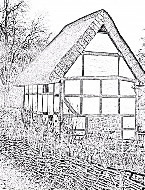 Sketch of a timber framed house at Weal and Downland Museum